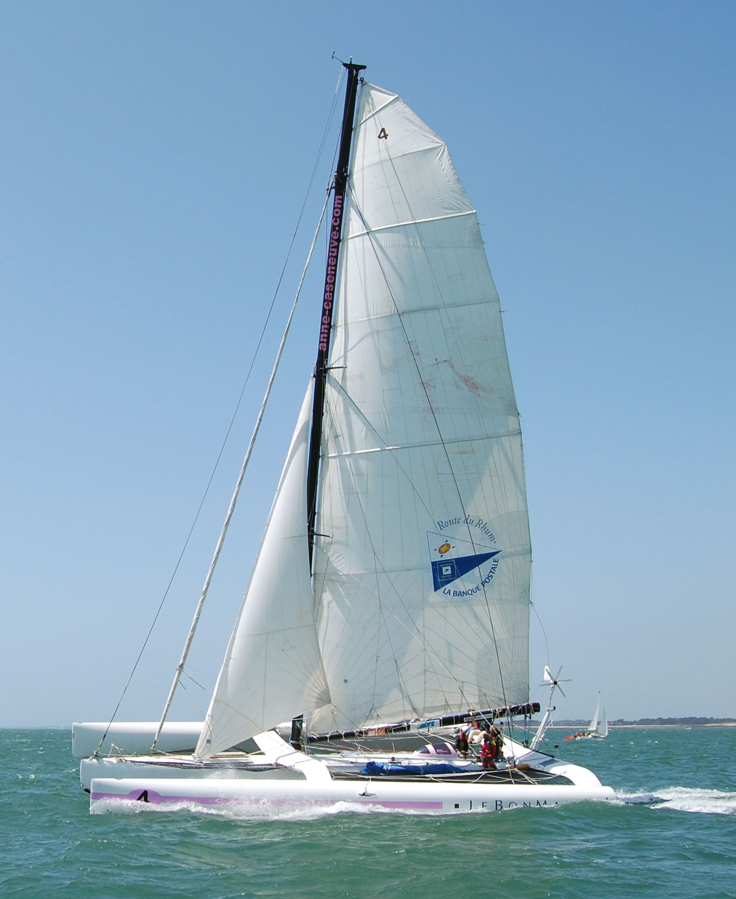 The trimaran of Anne Caseneuve ; bay of Quiberon, France, constructed of carbon-Kevlar material